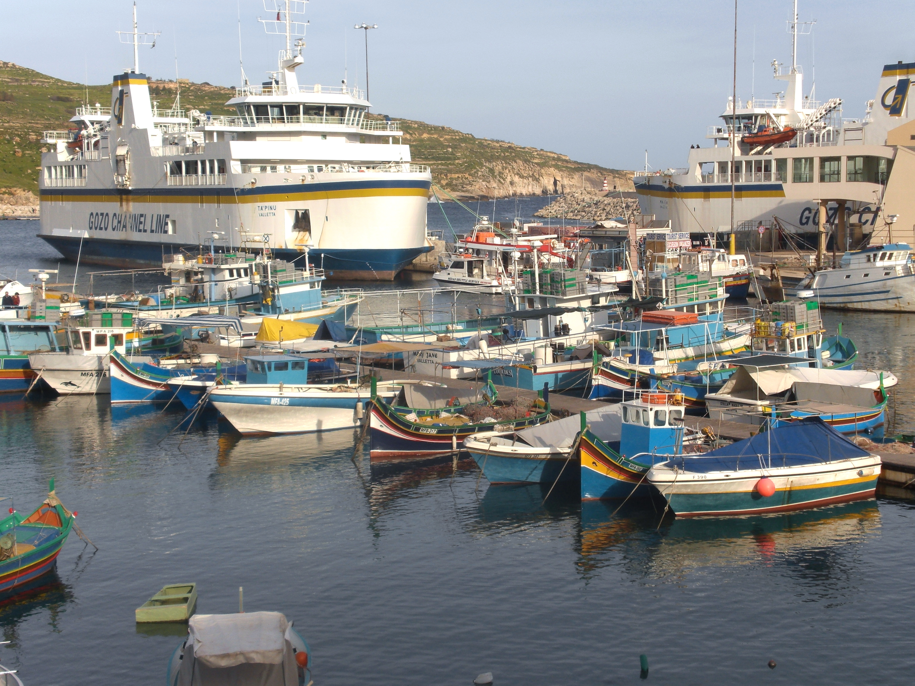 The TA'PINU at Mgarr Harbour, Gozo, Malta